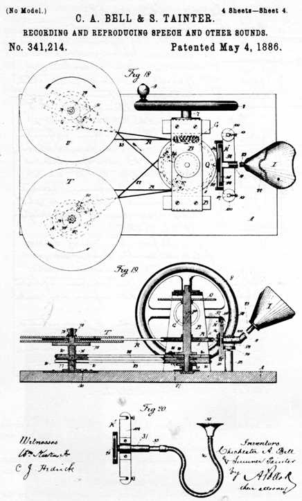 Volta Associates patent drawing from U. S. patent 341214, granted May 4, 1886, to Chichester Bell (A.G. Bell's cousin) and C. S. Tainter, all Associates of the Volta Laboratory created by Alexander Bell in 1880.